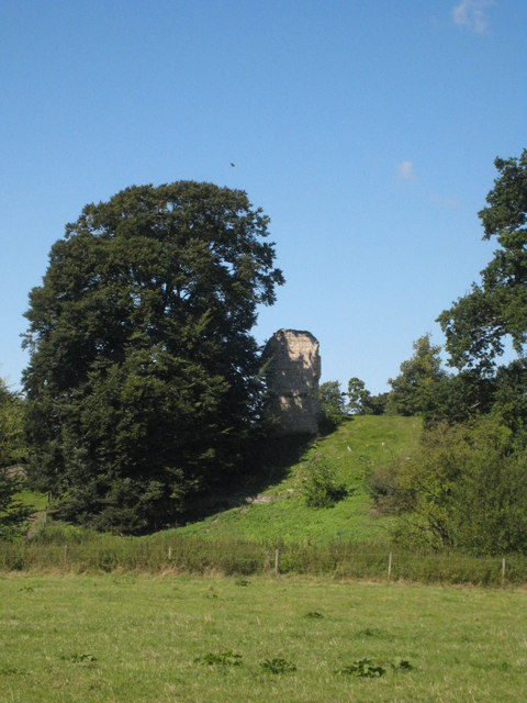 Wallingford Castle seen from Queen's Arbour One of only two remaining sections of the castle structure. More information about the castle here